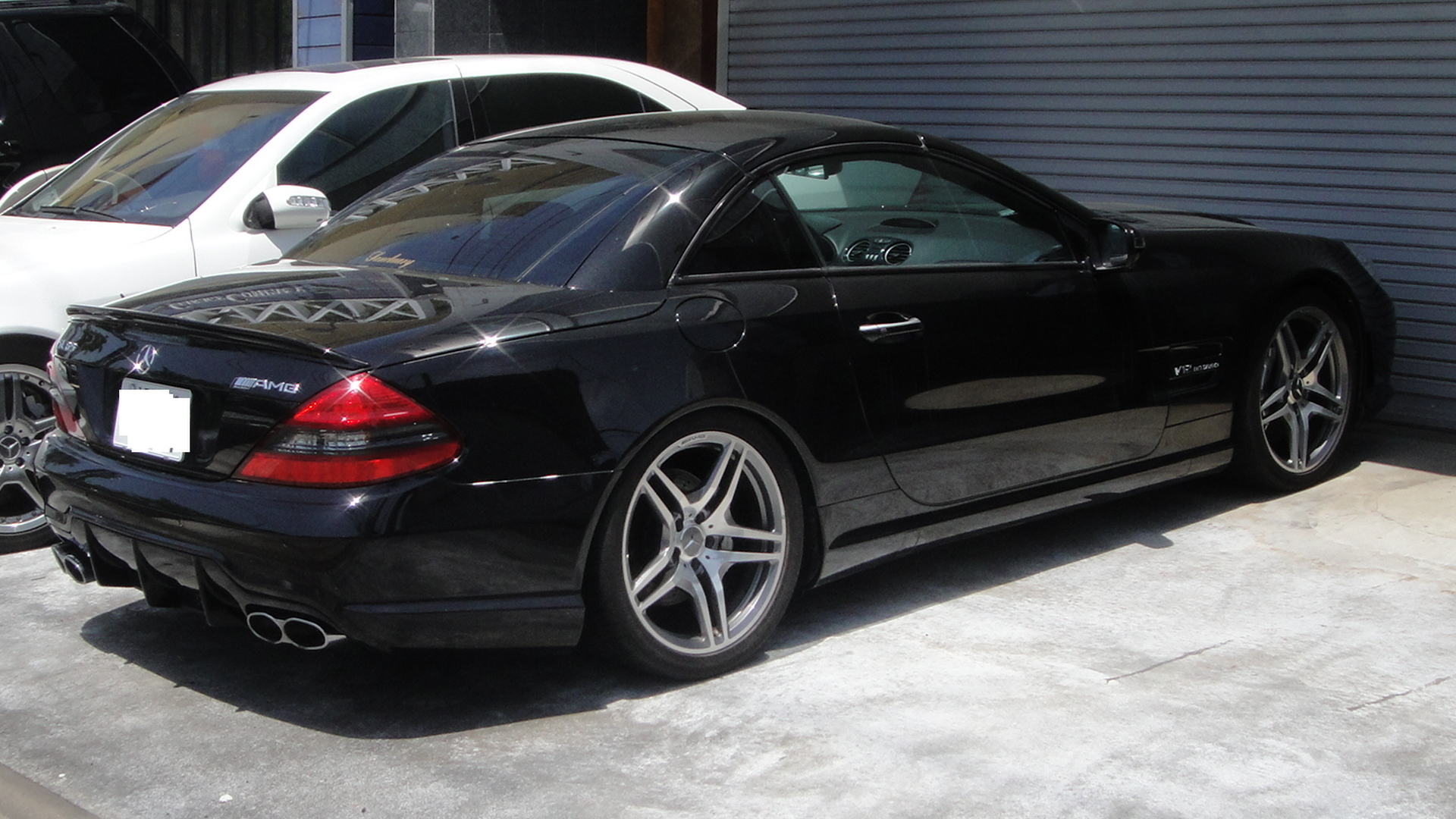 Mercedes-Benz SL65 AMG